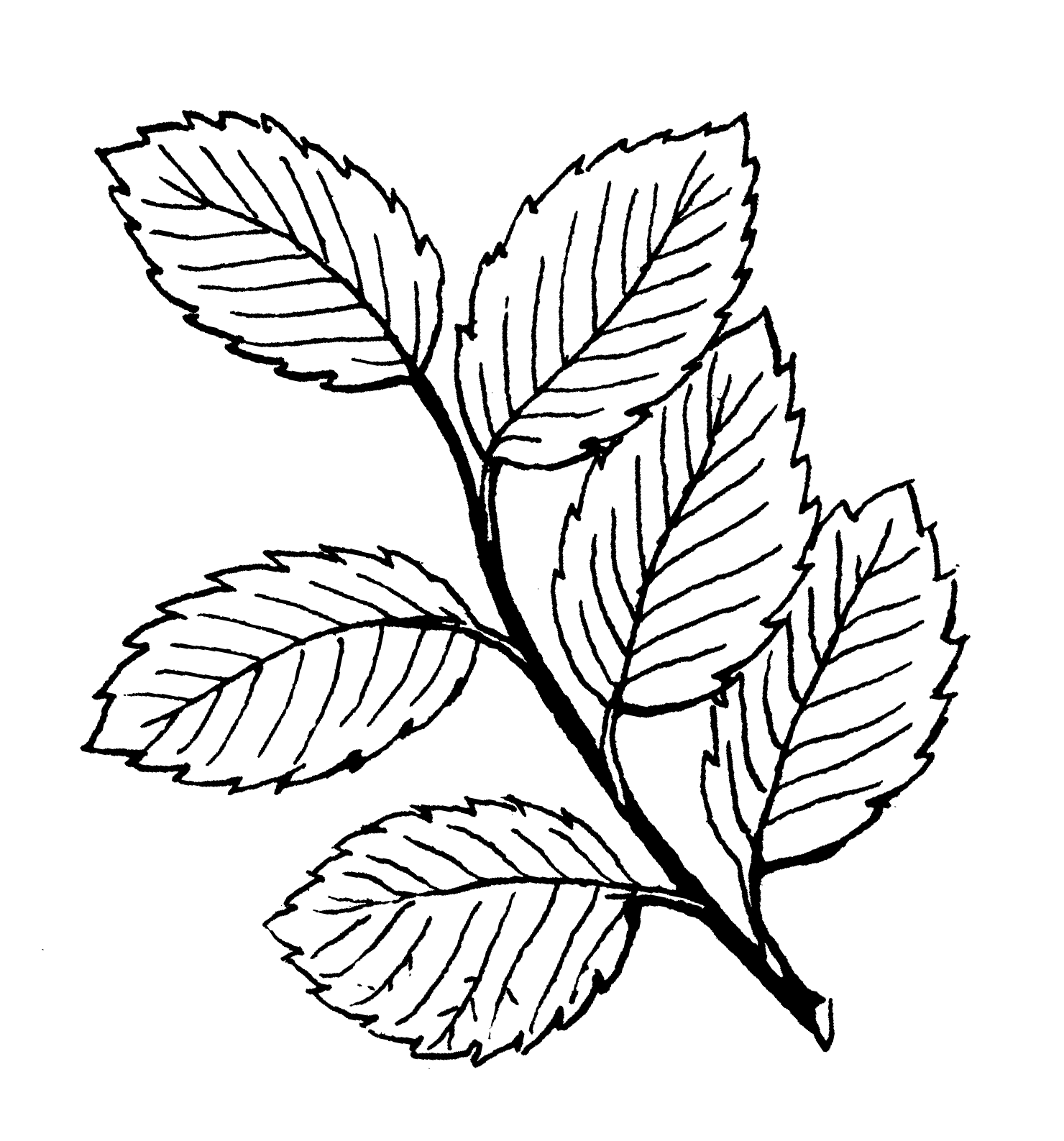 Line art drawing of alternating leaves on a branch.